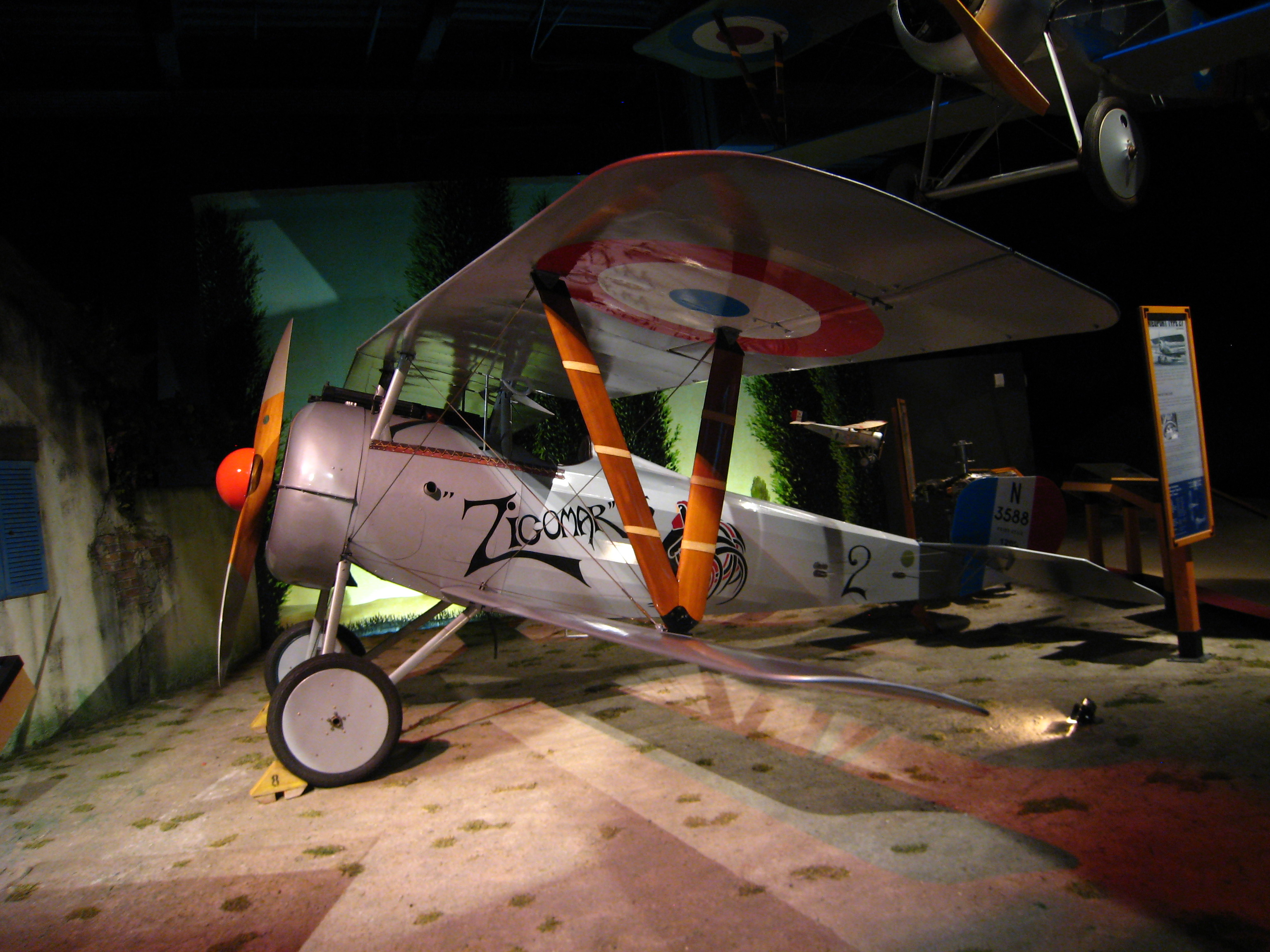 Reproduction of the French fighter aircraft Nieuport 24bis, at The Museum of Flight, Seattle, WA.